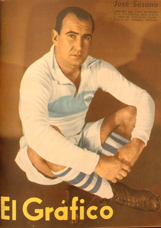 José Sesena, forward of Club Gimnasia y Esgrima de Buenos Aires. The team had won the URBA title one year before, being the last rugby championship won by Gimnasia to date.